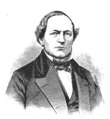 John Hogan (Missouri Congressman)